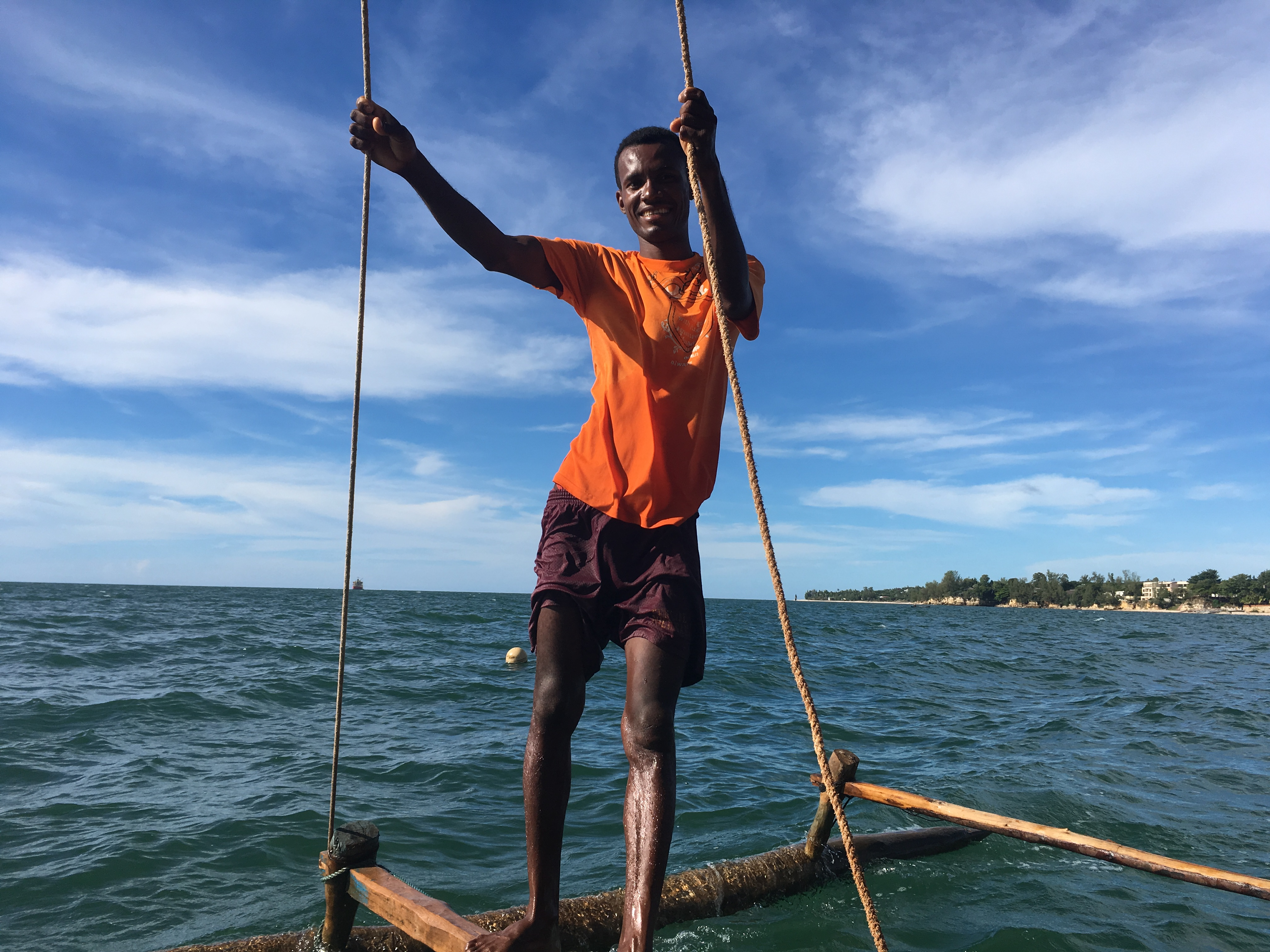 Fisherman in Mahajanga (Amborovy)